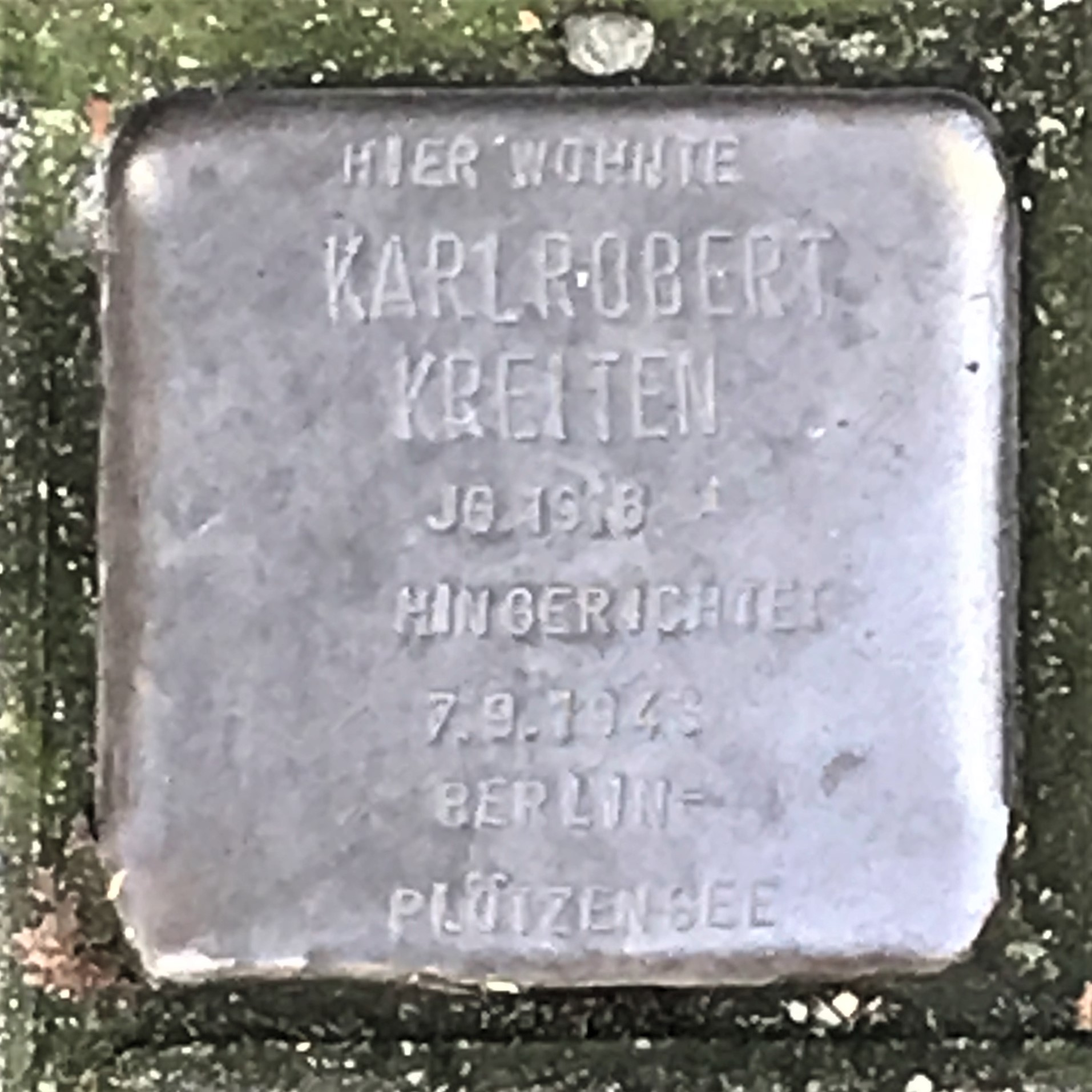 Stolperstein (Stumbling Stone) for Karlrobert Kreiten, Rochus Str. 7, Dusseldorf